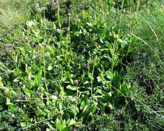 (en) Arnica montana, a photography originating of the internet site The accord of the autor, H. Brisse, is here. (fr) Arnica des montagnes (Arnica montana), une photographie issue du site internet L'accord de l'auteur, H. Brisse, se situe ici.